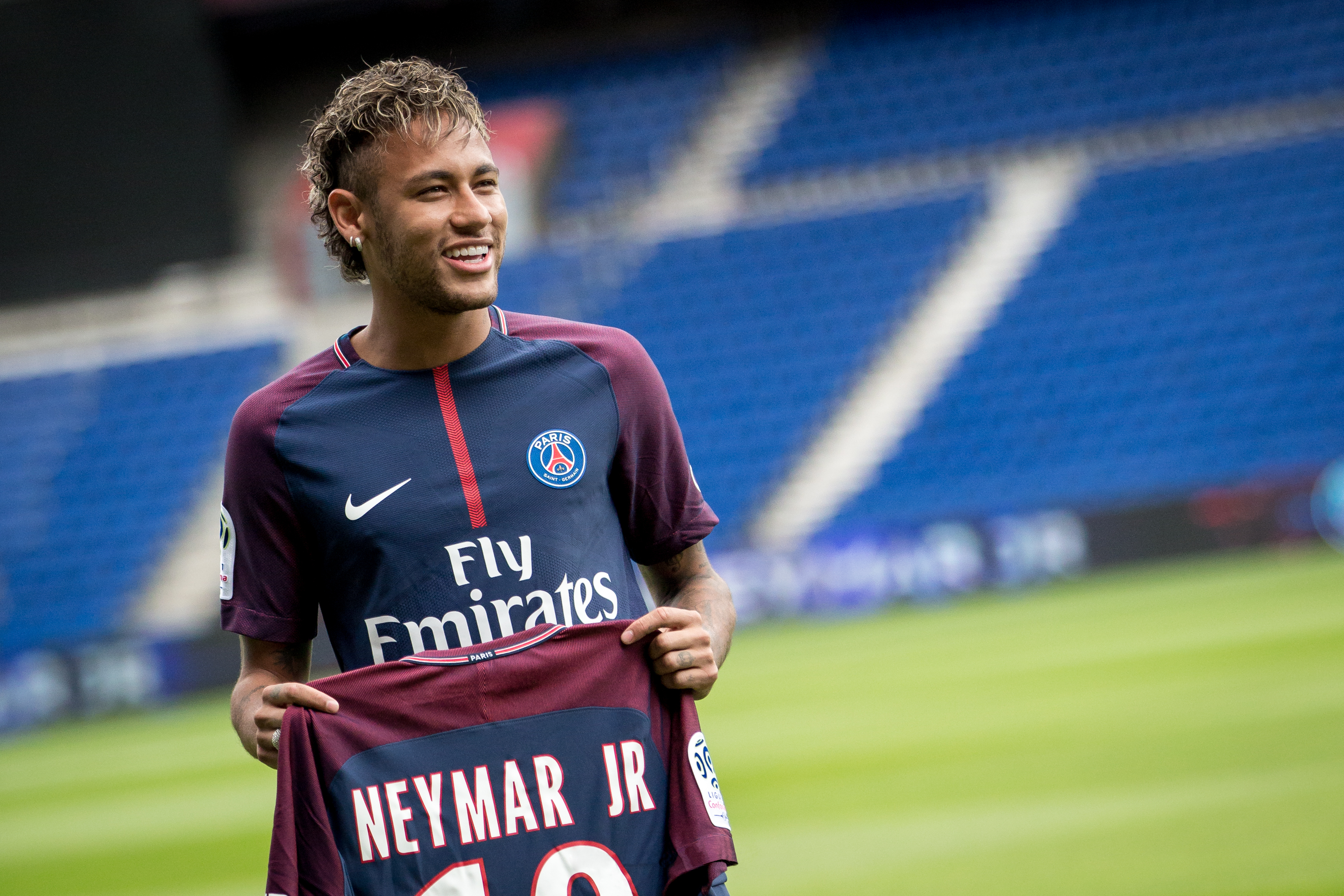 Neymar Jr official presentation for Paris Saint-Germain, 4 August 2017.